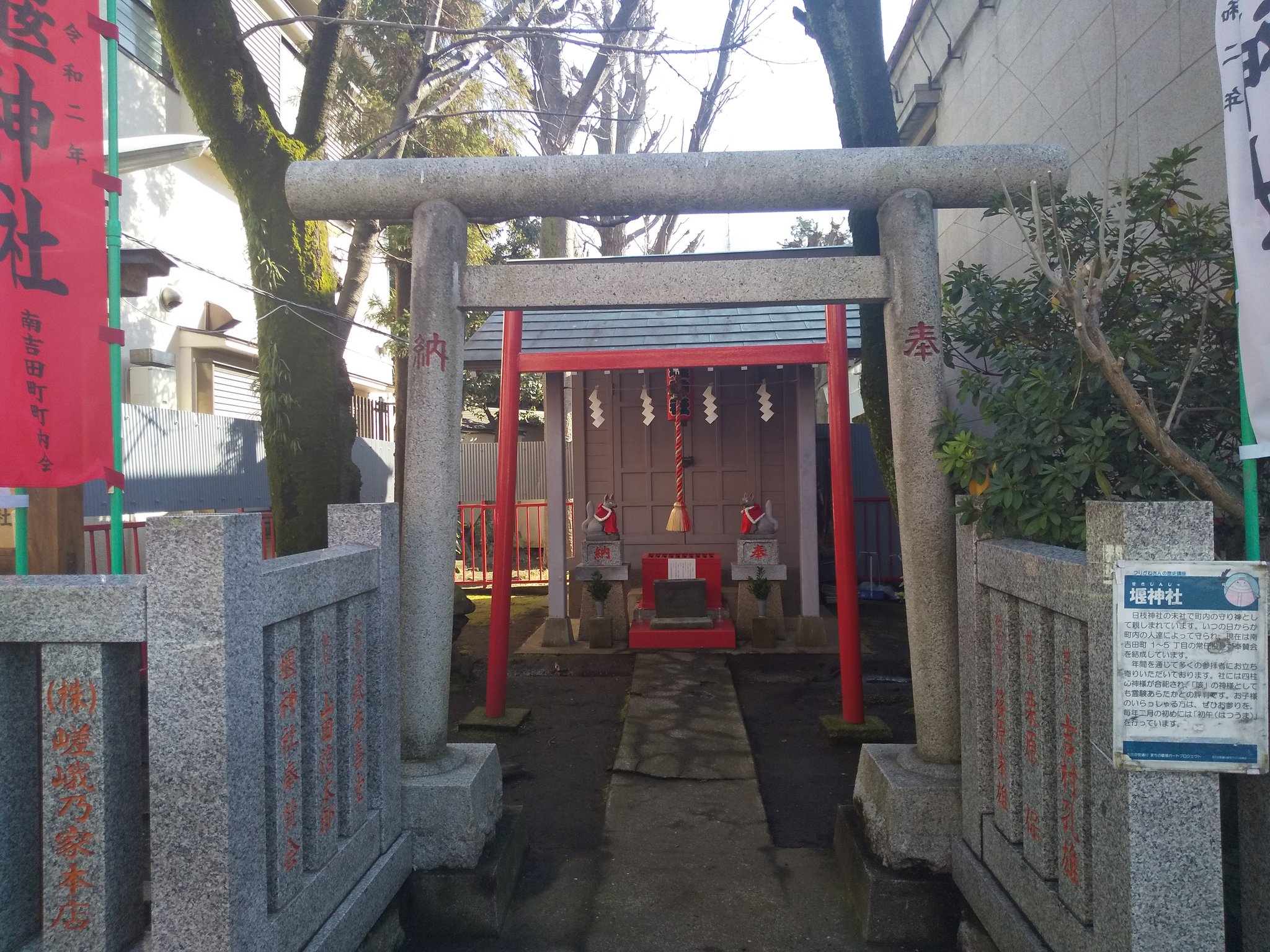 Seki shrine at Minani ward.